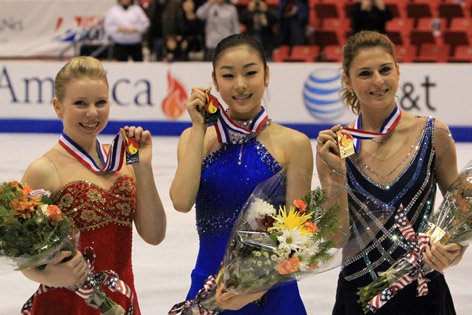 From left: Rachael Flatt(silver), Kim Yu-Na(gold), Júlia Sebestyén(bronze).